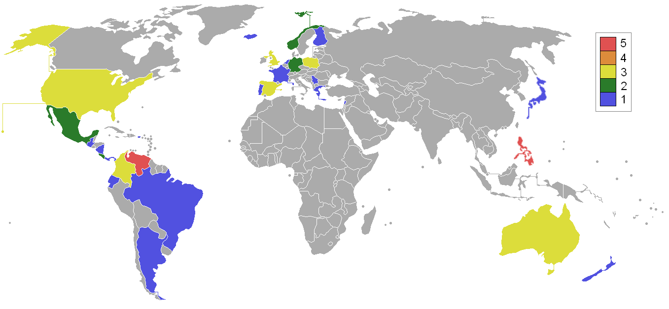 Miss International pageant winners map updated 2013